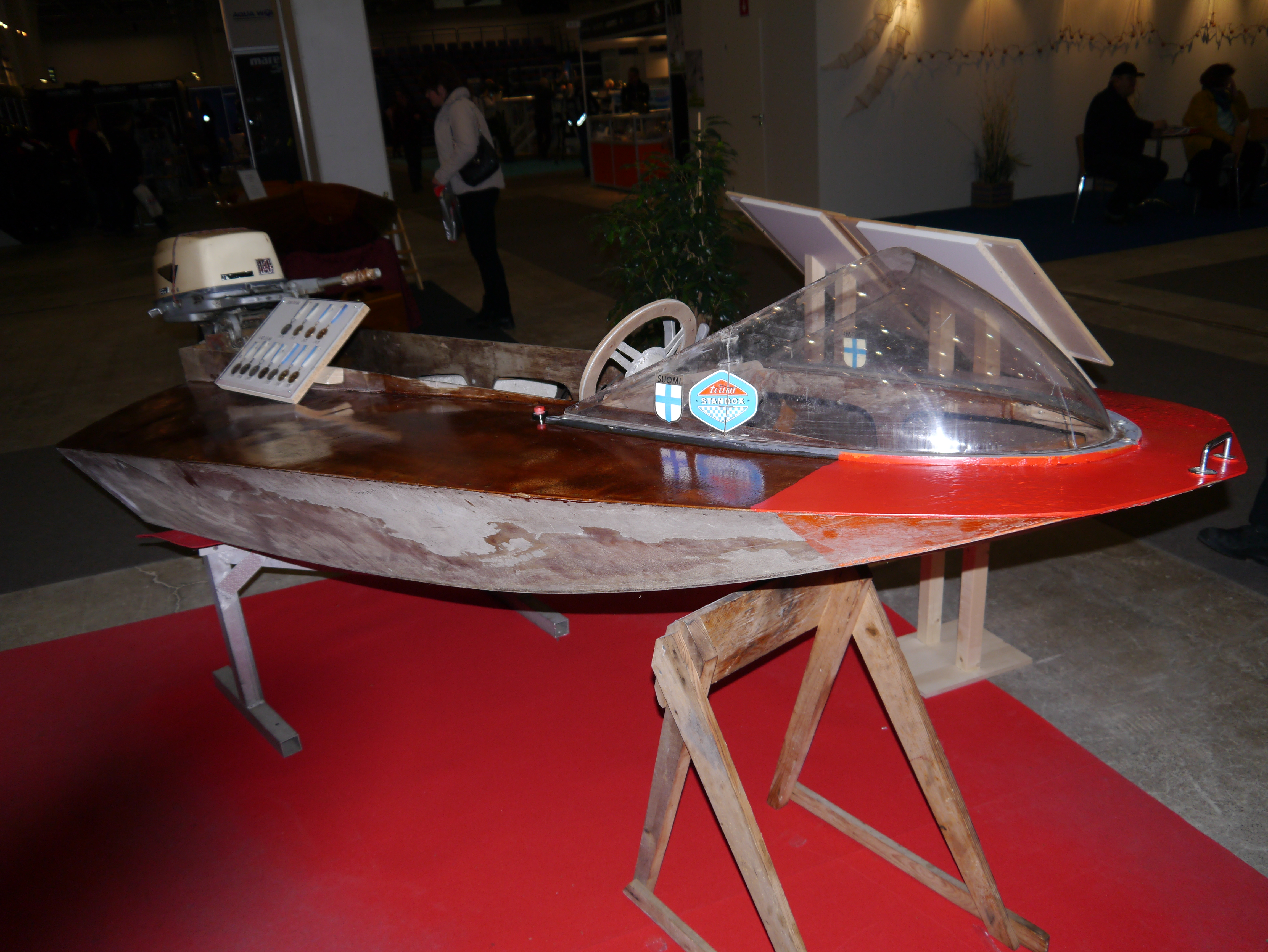 Finnish home made outboard Vesimäkärä was designed in 1962 by Kai Osara for young outboard racing devotees.The concept was based on Swedish speedboat Speedy designed by Åke Sundstedt. Photo taken during Vene 2012 exhibition in Helsinki February 2012.